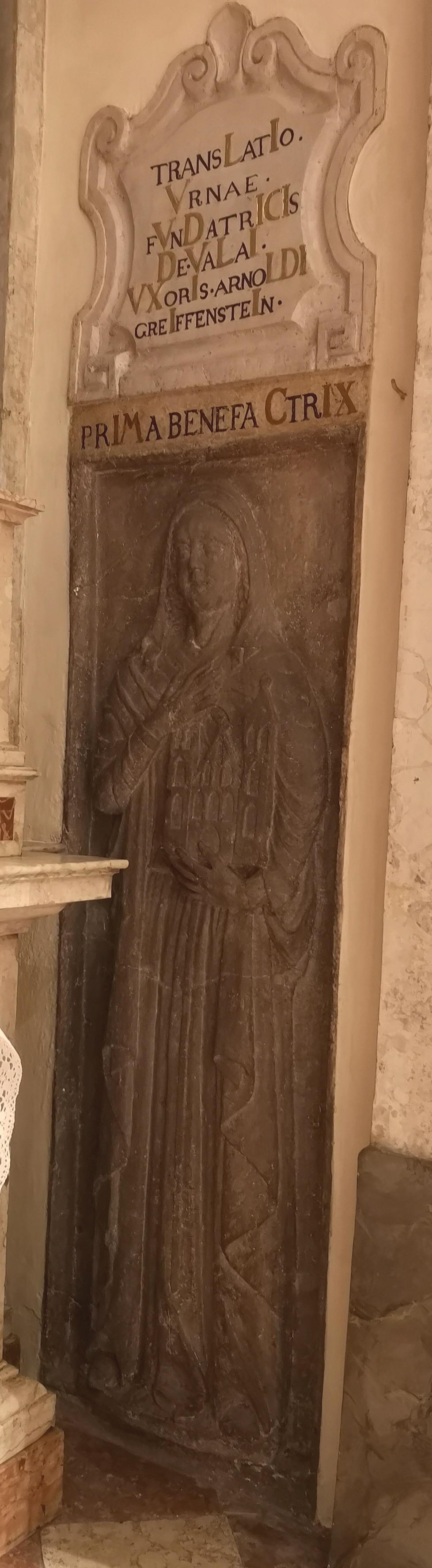 Headstone of countess Mathilde von Valley in the Muri Gries abbey in Bozen, early 15th century